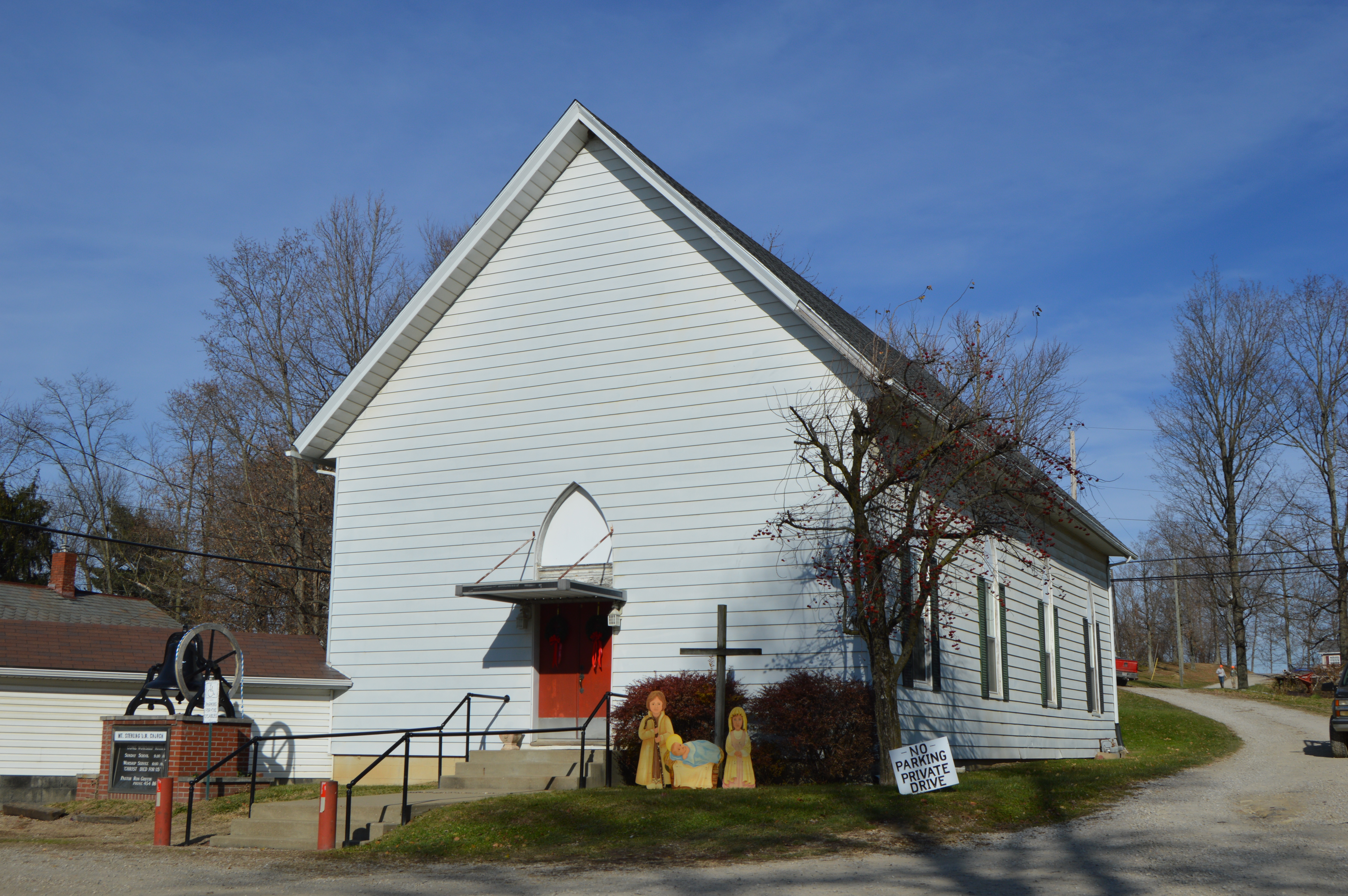 Front and eastern side of Mount Sterling United Methodist Church, located at the intersection of Ridge Road and the old National Road at Mount Sterling in Hopewell Township, Muskingum County, Ohio, United States.